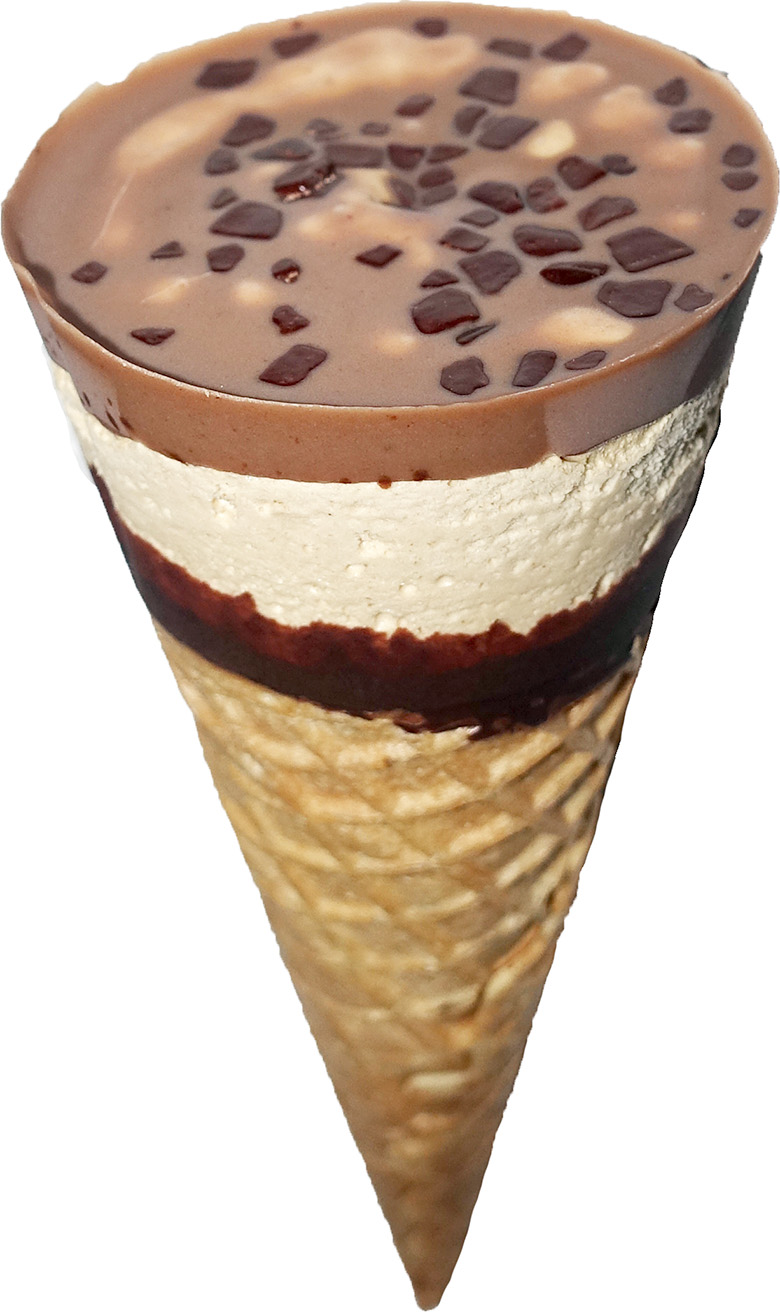 Kinder Bueno Ice Cream